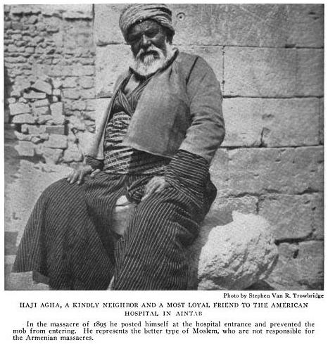 From the October 1915 issue of National Geographic. Copyright is expired. Photo caption reads: Haji Agha, a kindly neighbor and a most loyal friend to the American Hospital in Aintab In the massacre of 1895 he posted himself at the hospital entrance and prevented the mob from entering. He represents the better type of Moslem, who are not responsible for the Armenian massacres.